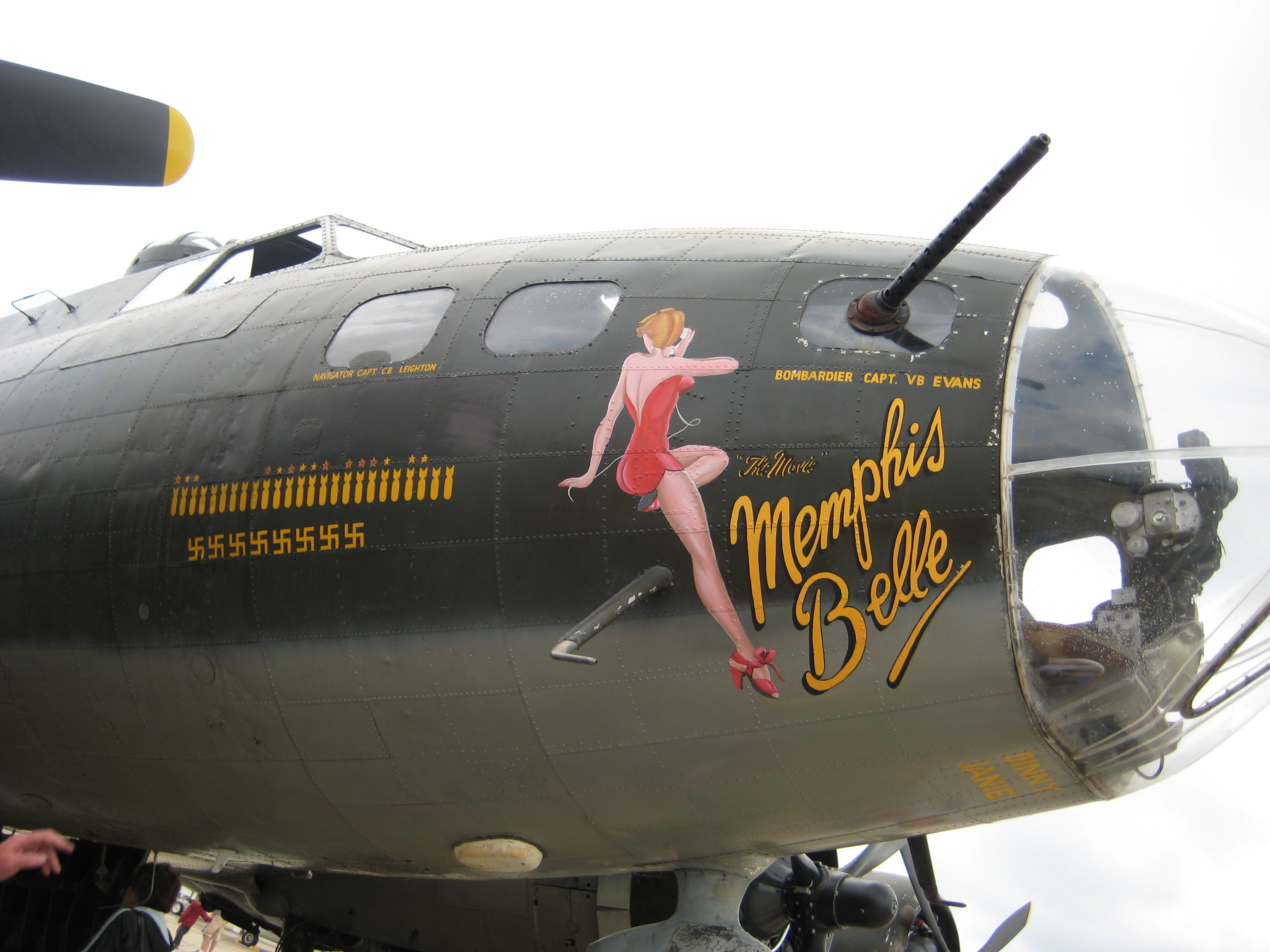 Memphis Belle - movie plane - at Andrews Air Force Base 2008 Joint Service Open House. One can see the Norden bombsight in the nose.